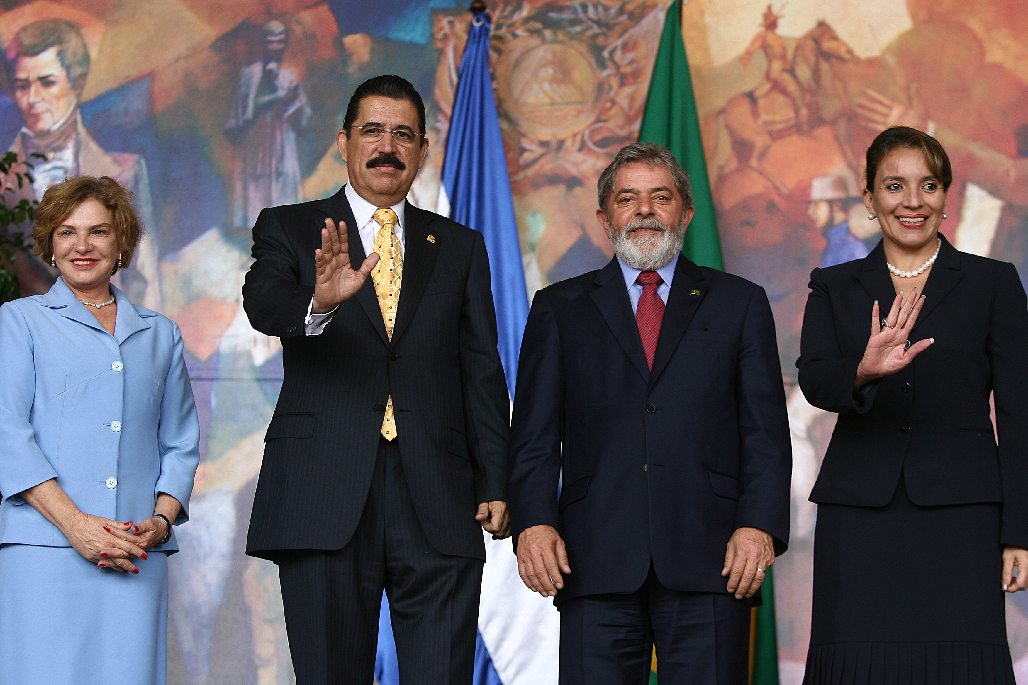 Luiz Inácio Lula da Silva, President of Brazil, during a state visit with José Manuel Zelaya Rosales, President of Honduras, in Tegucigalpa